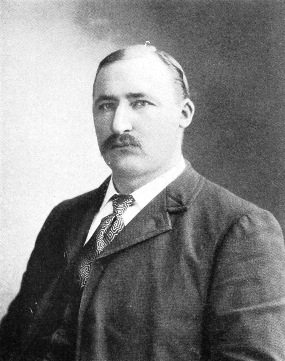 Senator Henry Heitfeld